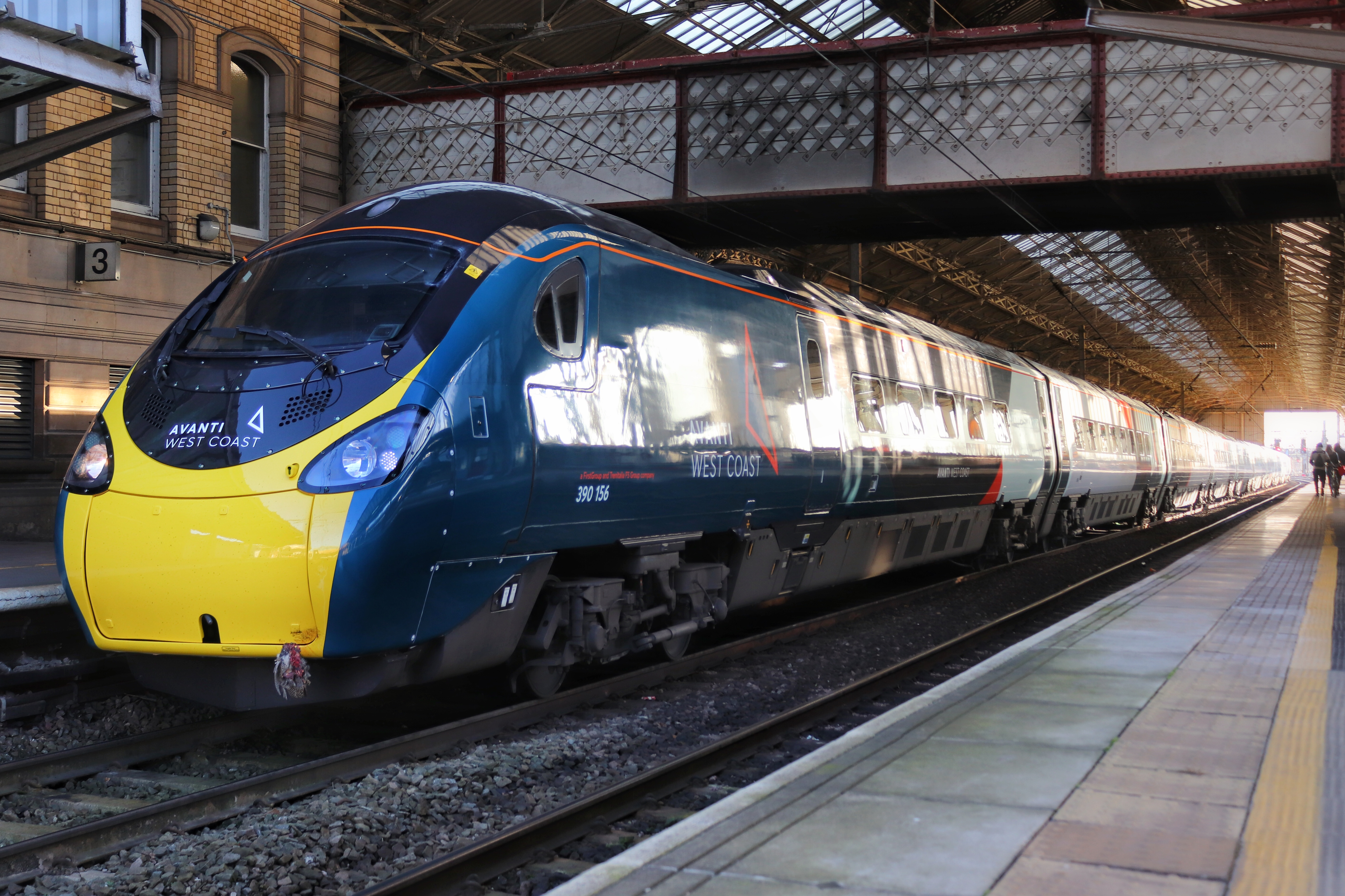 390156 was the train running the VIP 1Z17 train from EUS-GLC to launch the Avanti West Coast franchise.